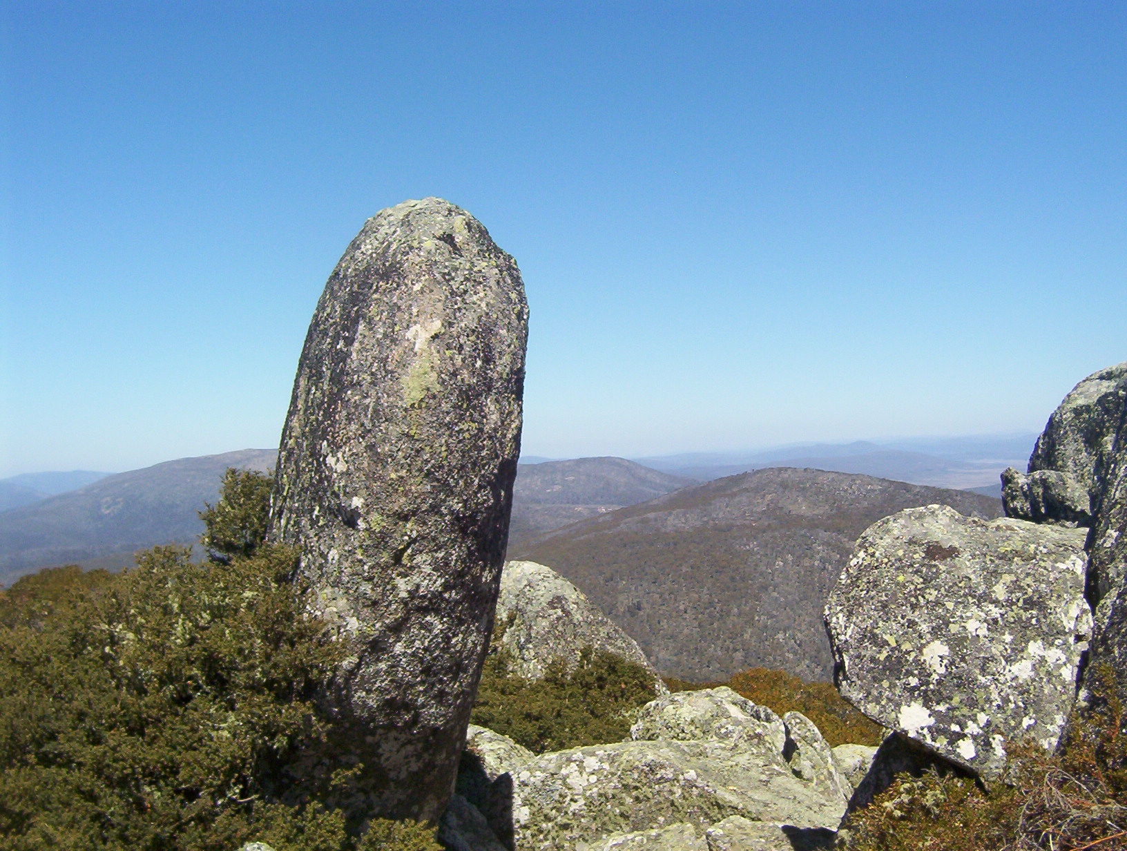 Description: A picture taken, from the top of the Mount Ginini, Namadgi National Park. Source: Own work Date Taken: October 5th 2006 Author: Dfrg.msc Uploader: Dfrg.msc Permission: Given